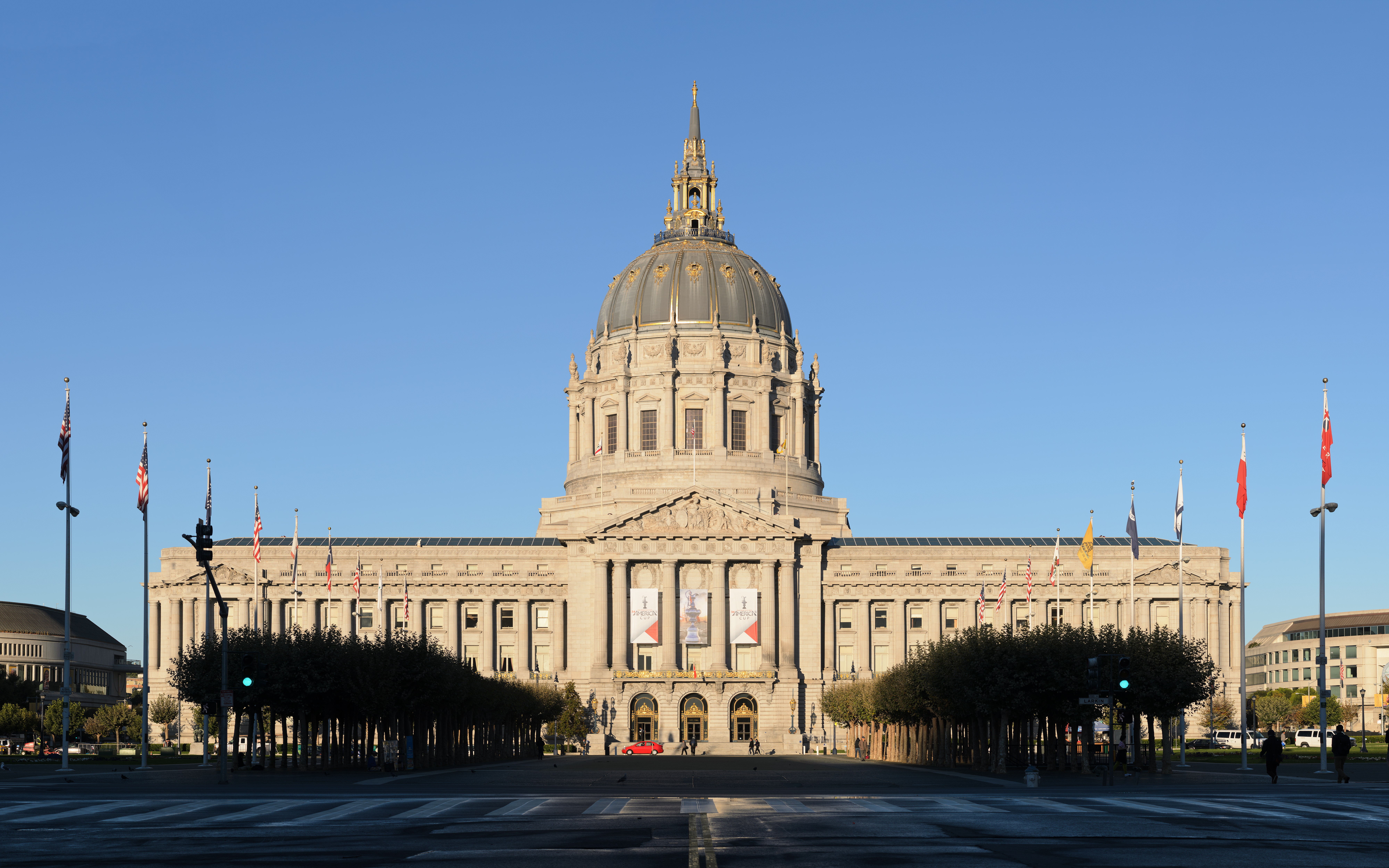 Twelve-segment panorama of San Francisco City Hall, San Francisco, early morning.